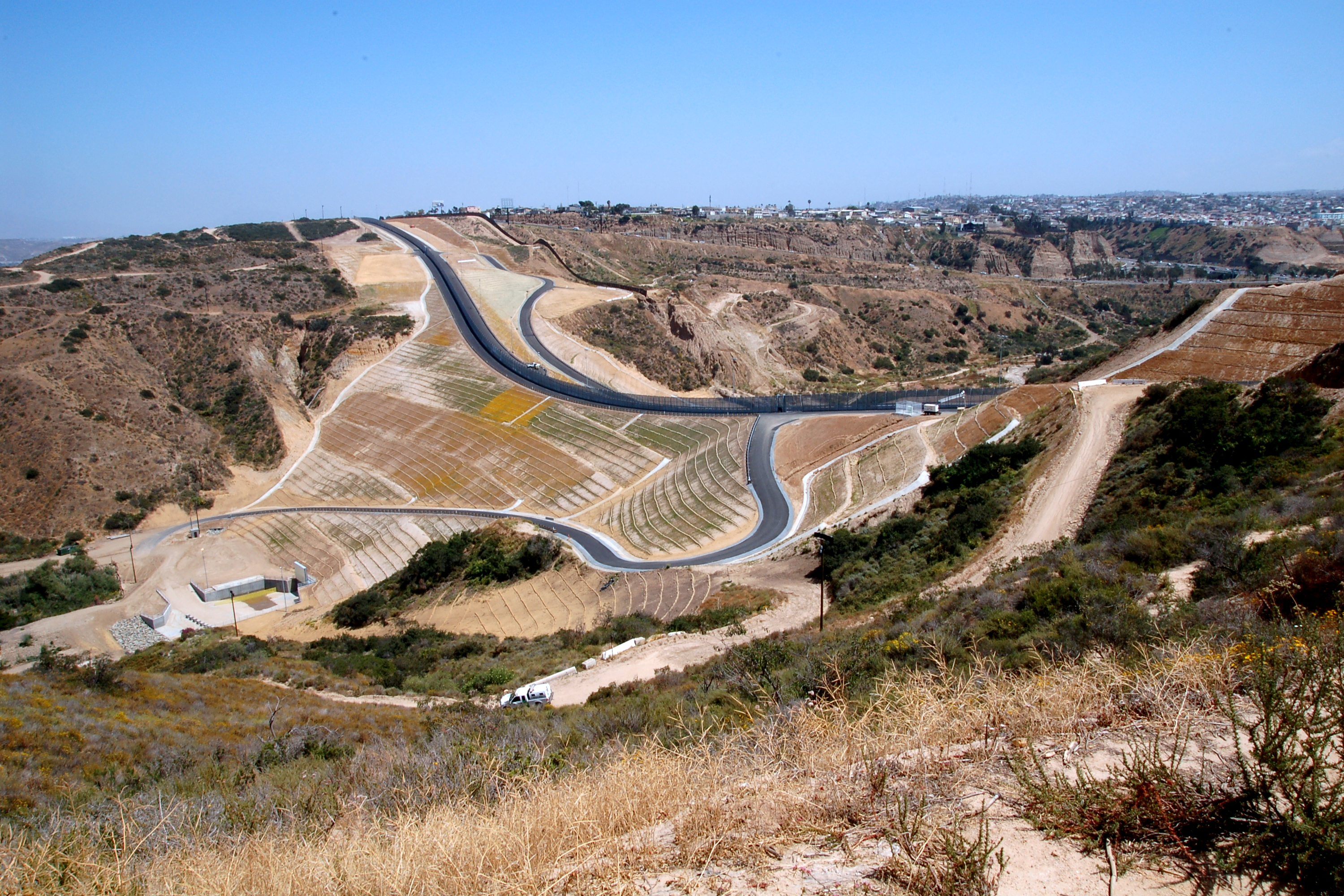 The earthen berm built in Smuggler's Gulch required more than a million cubic yards of dirt. More info: NPR San Diego Union-Tribune Environment & Energy Publishing DSC_5984